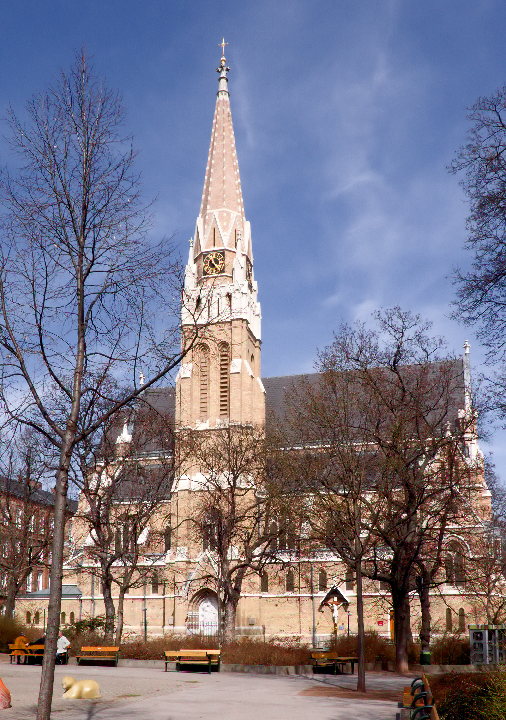 Redemptoristenkirche (Hernals) in Vienna Hernals